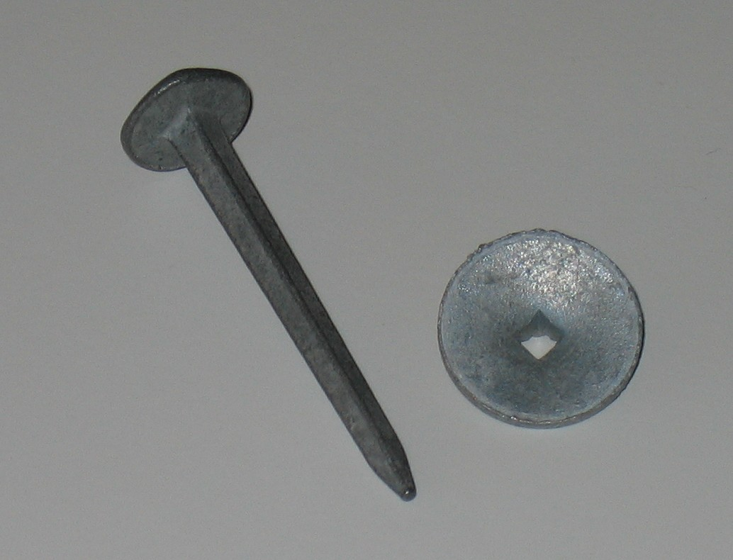 Ship's nail and rove